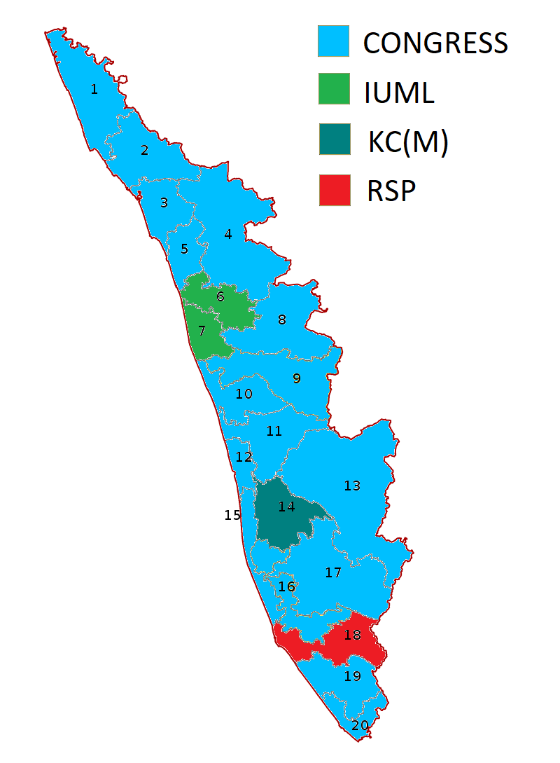 Seat Sharing of UPA in Kerala in 2019 General Election